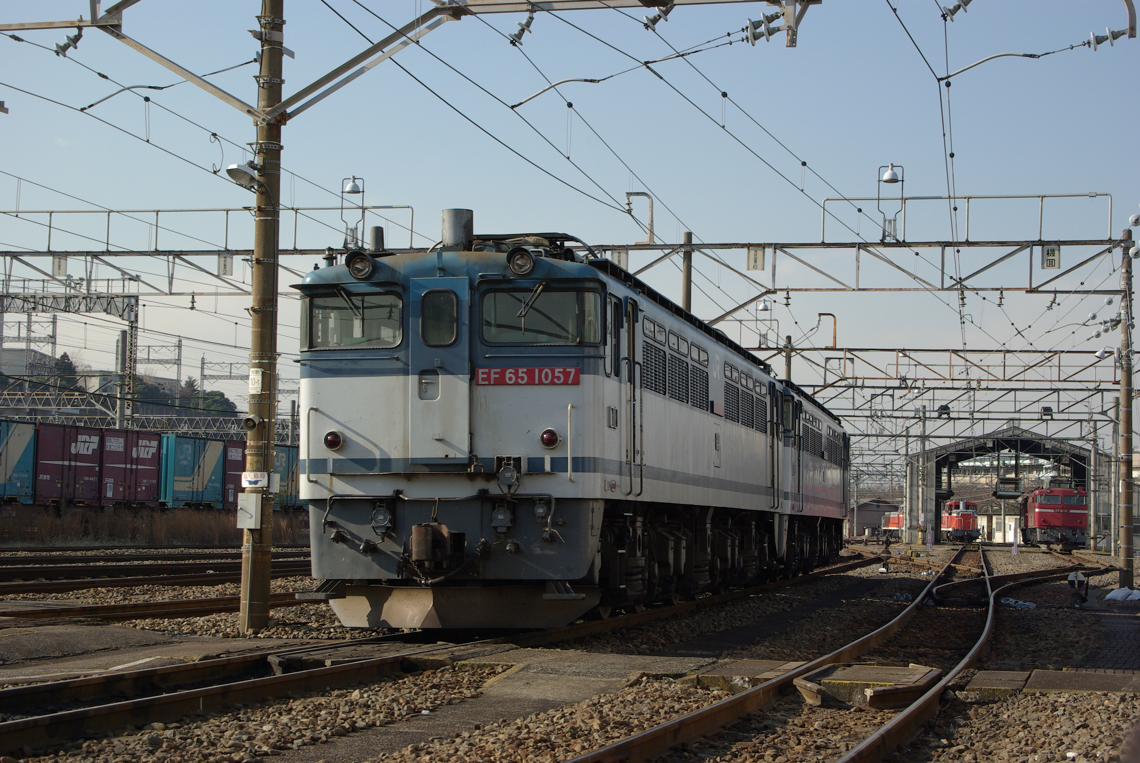 JR Freight EF65 1057 at Tabata Depot, Japan